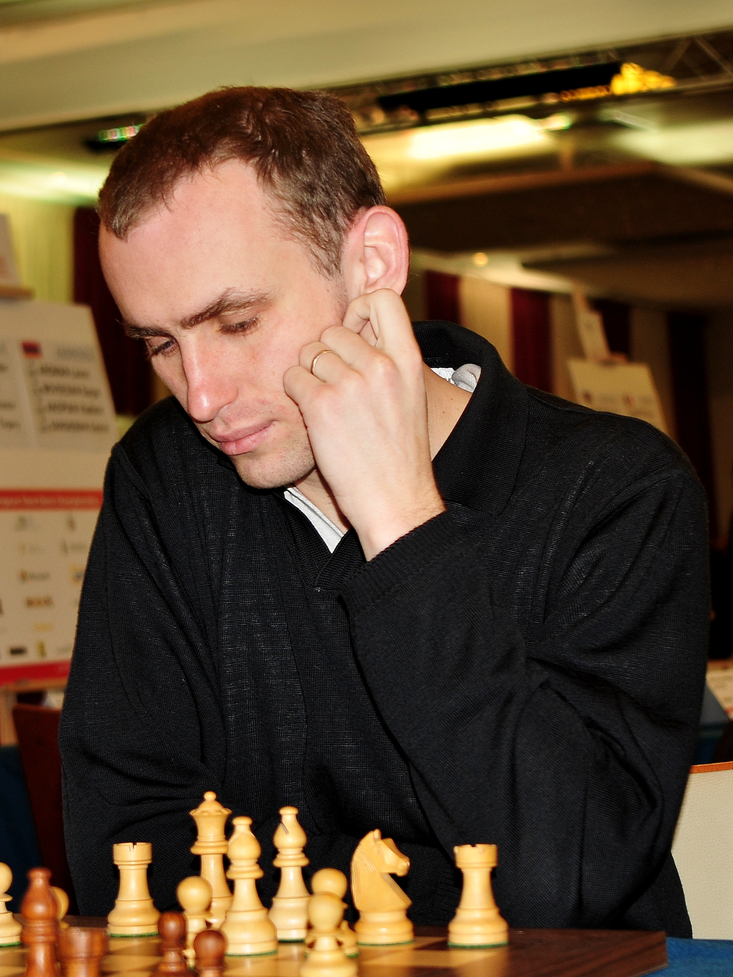 GM Andrey Zhigalko, European Chess Team Championship Warsaw 2013